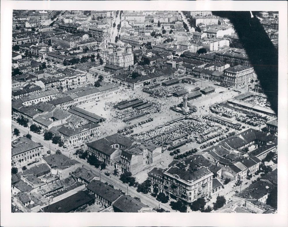 Bird view of Odessa city center (Old Market square)